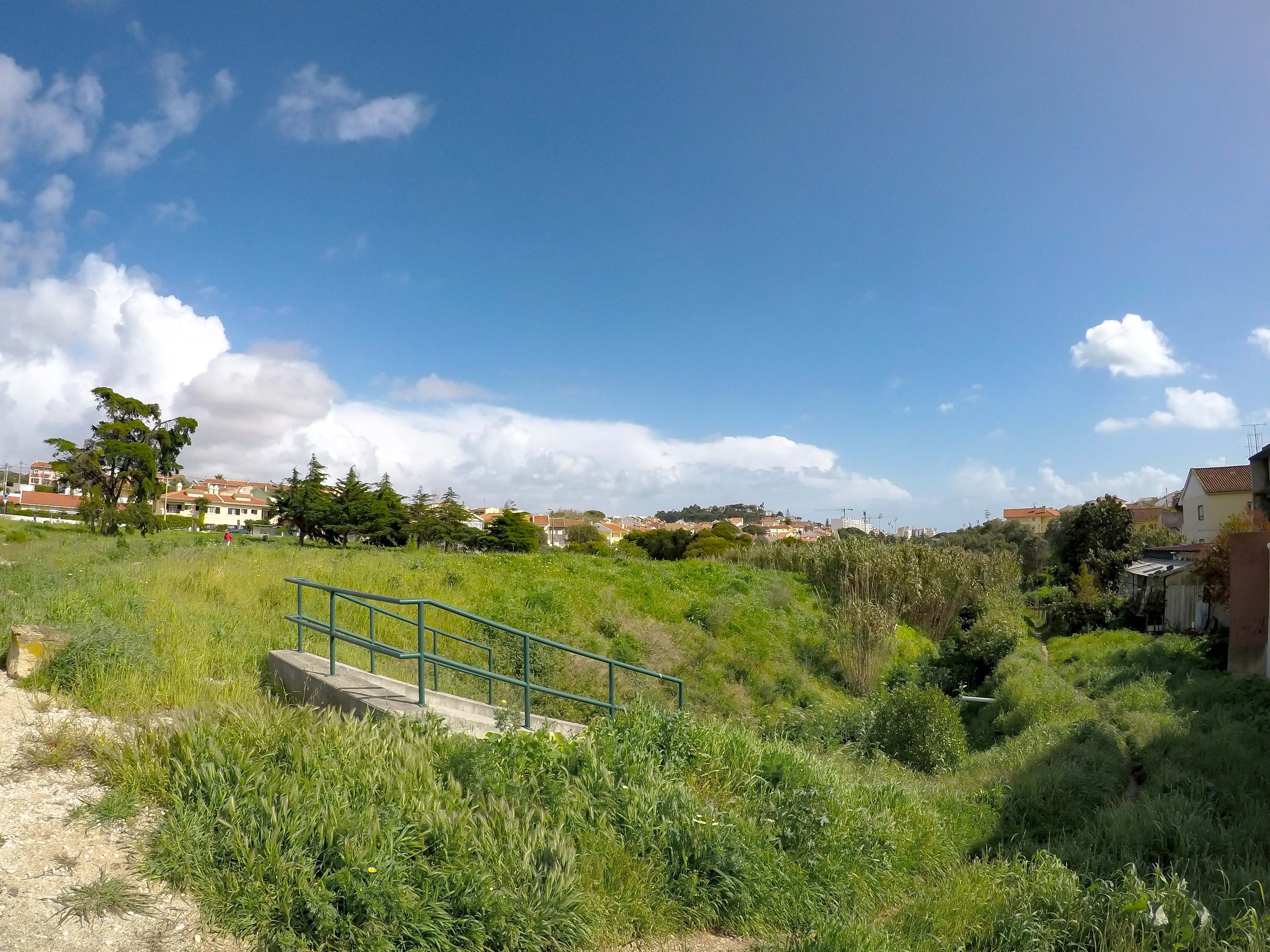 Ribeira da Amoreira